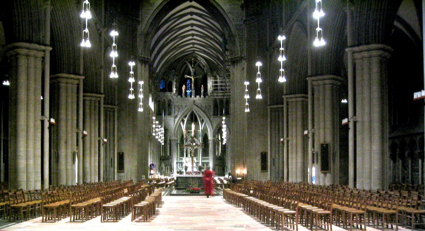 Interior of the Nidaros Cathedral